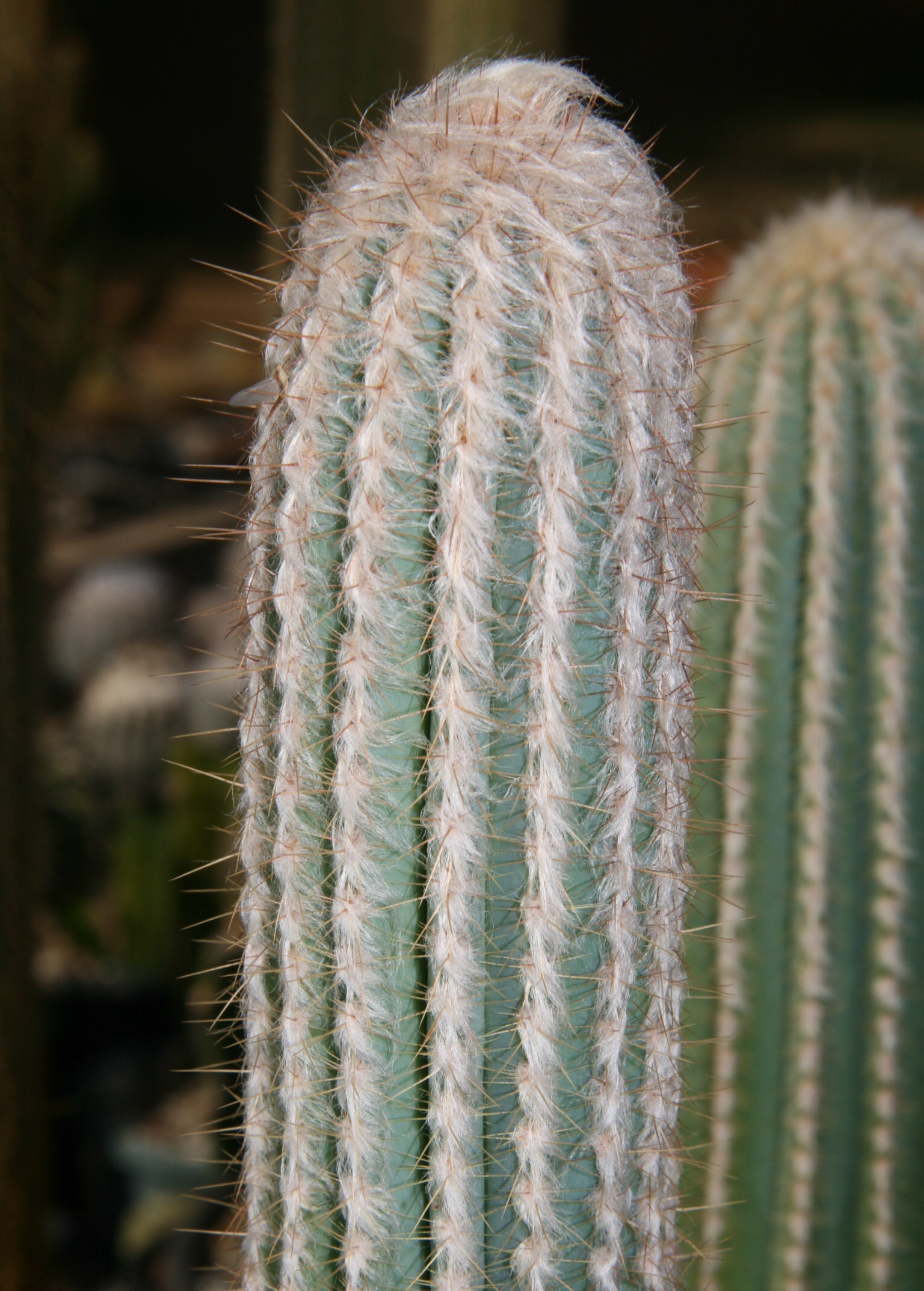 Young, non-flowering stem, plant from type locality W Minas Gerais, Brasil